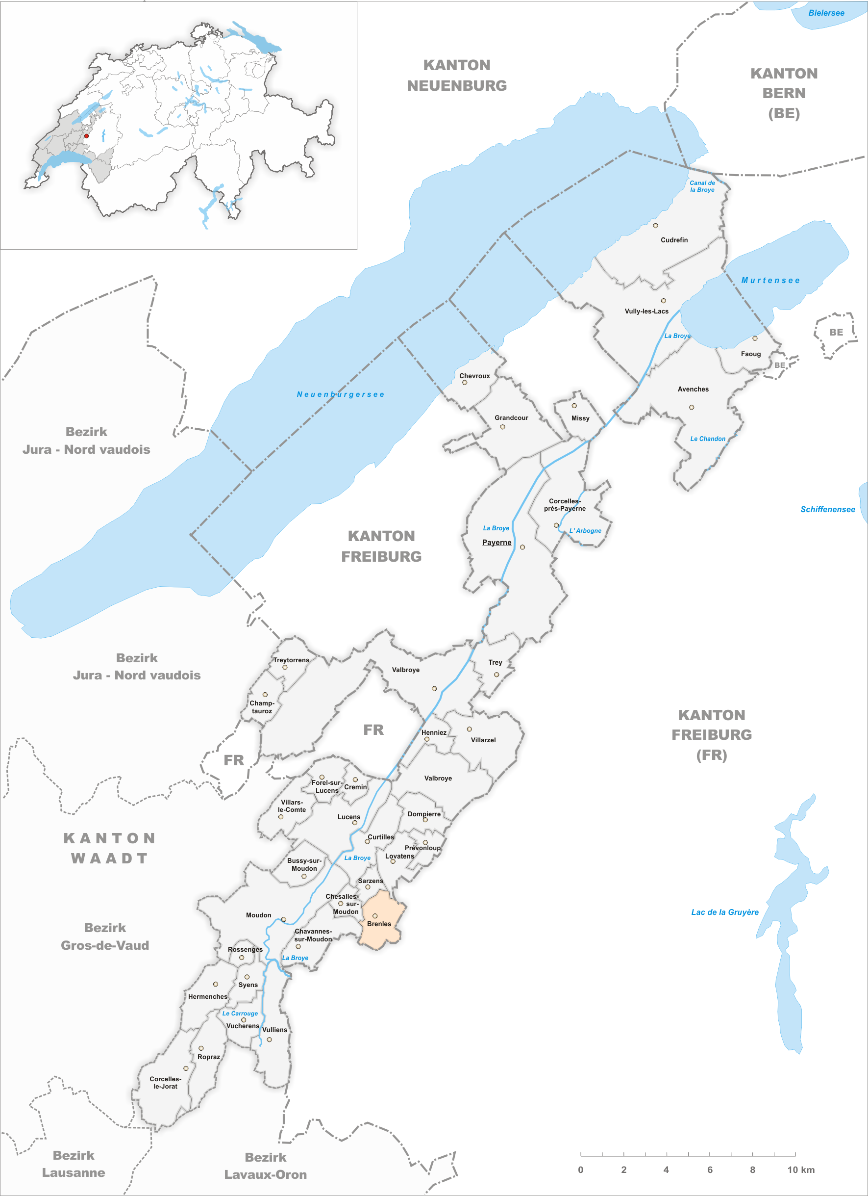 Municipality Brenles